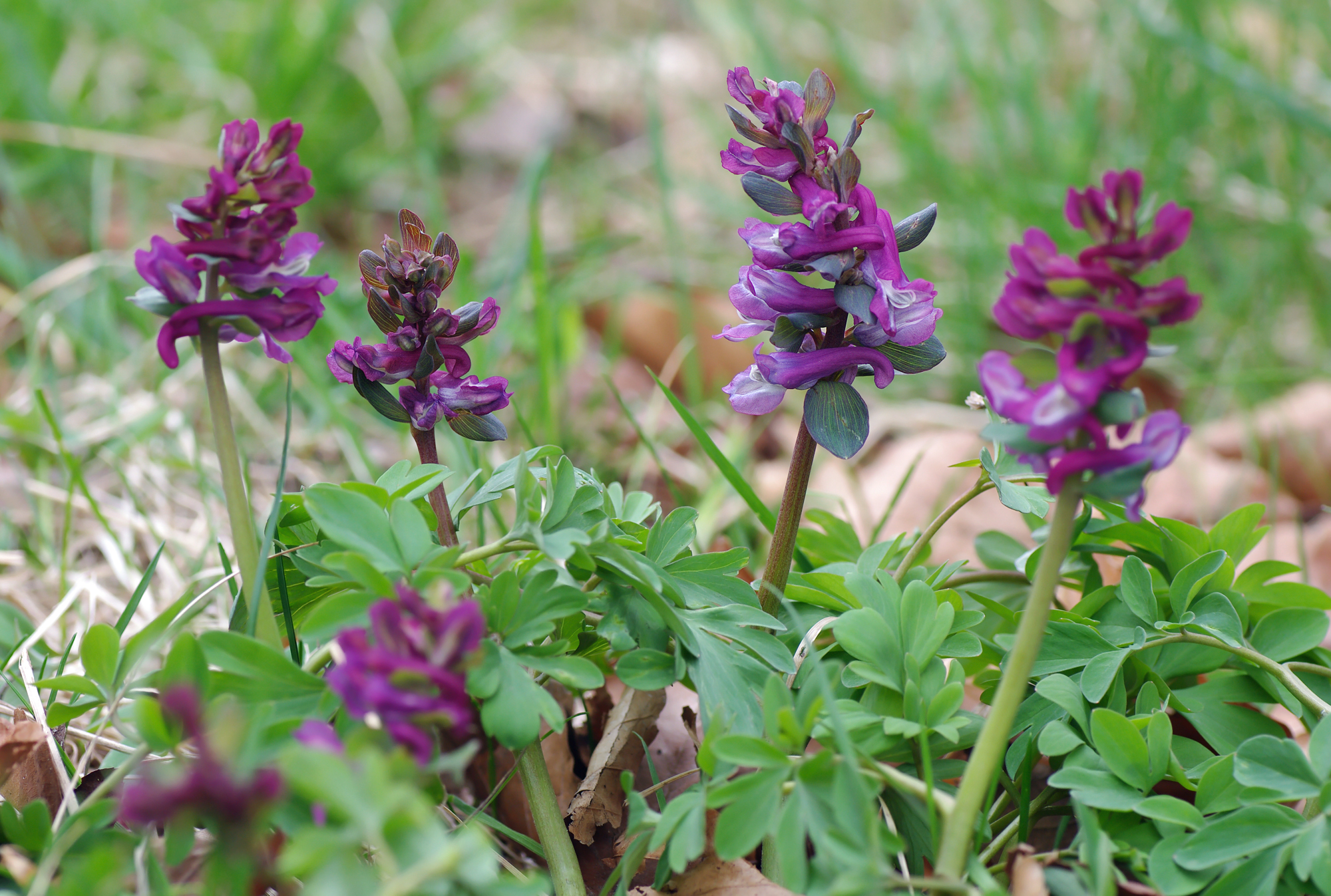 Plants of Corydalis cava (Hollow root). Note the simple shaped bracts. They were found in the open field outside of gardens (but believed to be synanthrope at that locality). Height about 10–12 cm. Typically for that species, next to violet flowers there were also plants with white flowers present.